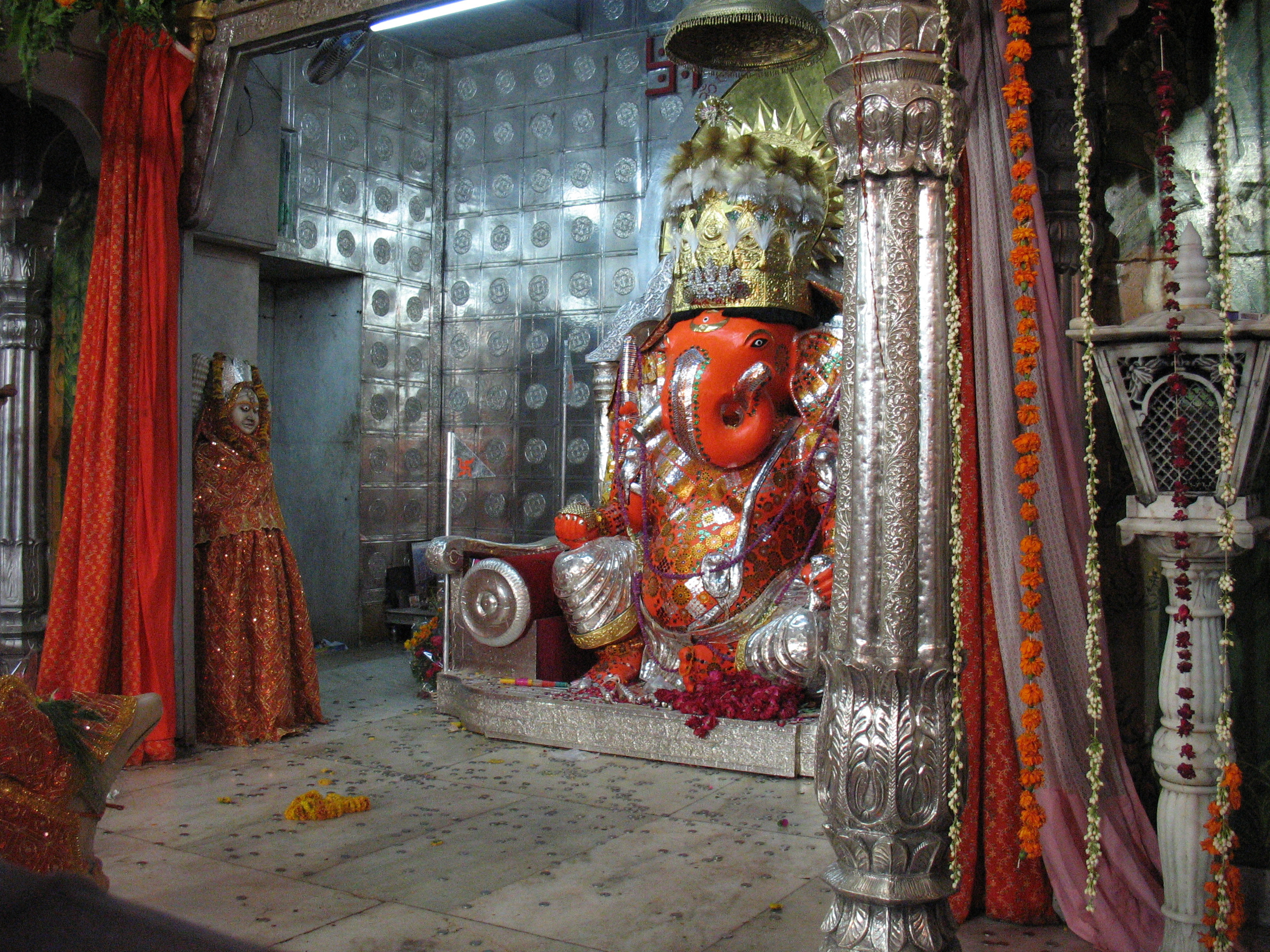 Ganesha statue at 'Birla Mandir' temple in Jaipur, India